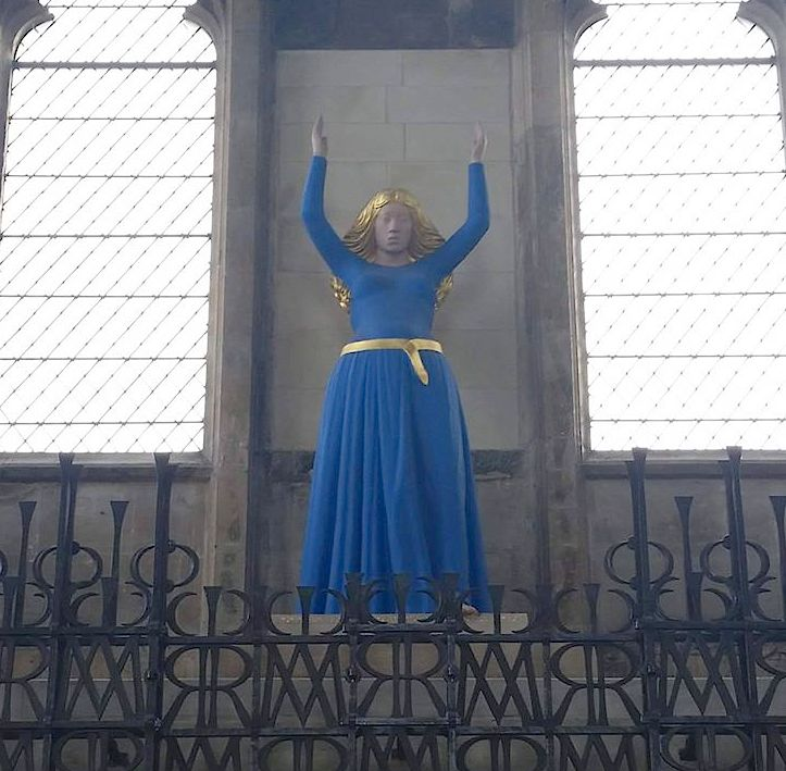 Image of the Virgin Mary at the Annunciation by David Wynne, Lady Chapel, Ely Cathedral